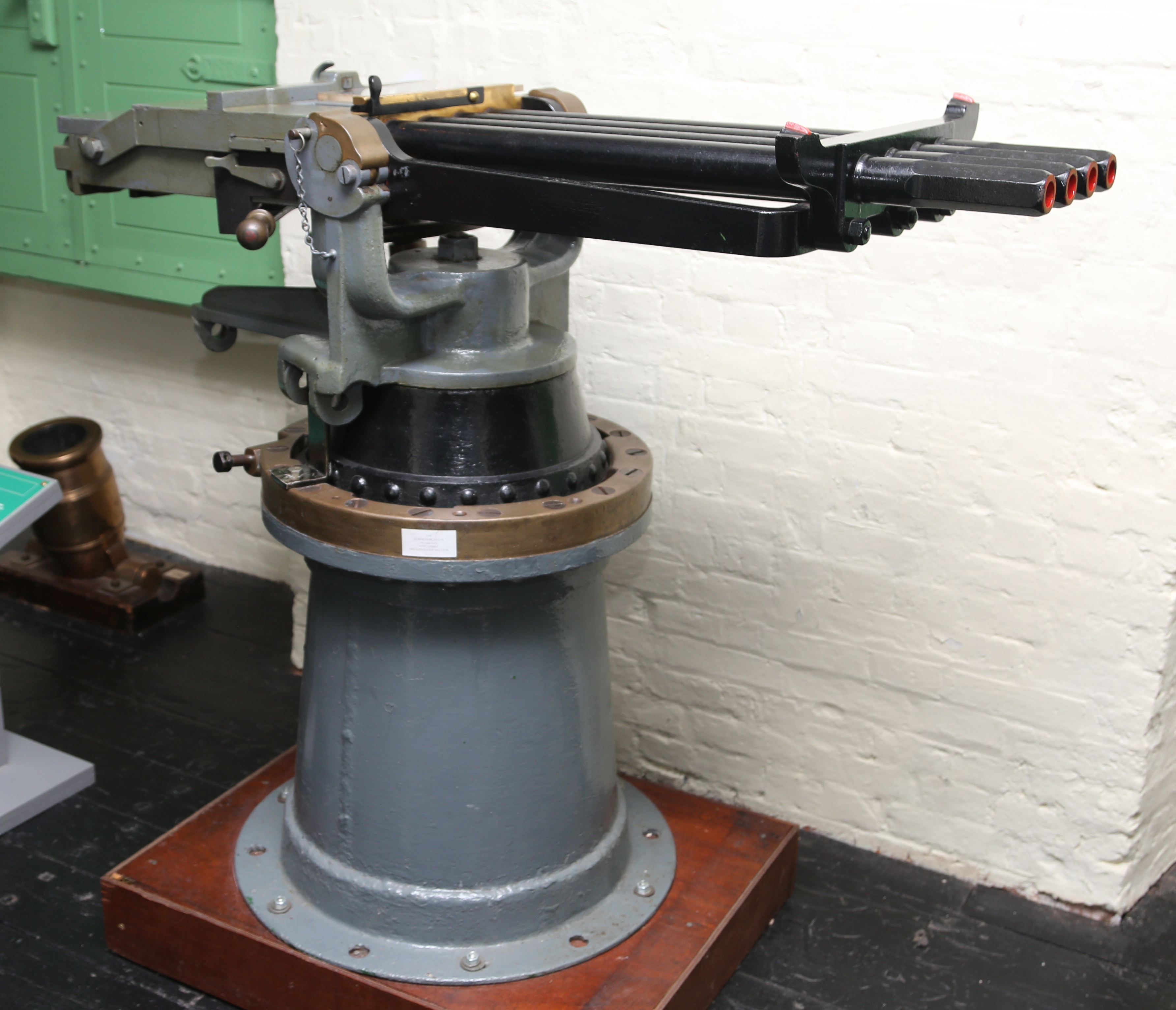 Photo of a four barreled 1-inch Nordenfelt gun